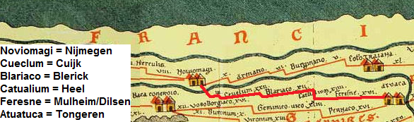 The Roman road between Maastricht and Nijmegen as shown on the Peutinger table